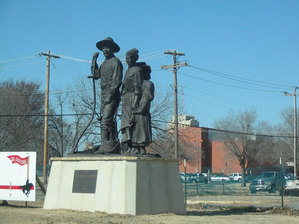 Photograph of the Pioneer Family Statue outside the Cherokee Strip Regional Heritage Center.